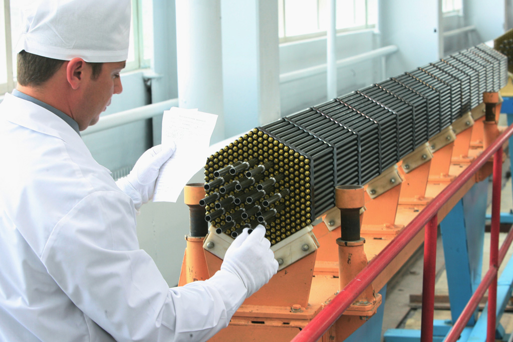 “Nuclear power reactor fuel assembly”. Nuclear power reactor fuel assembly at the Novosibirsk Chemical Concentrate Works